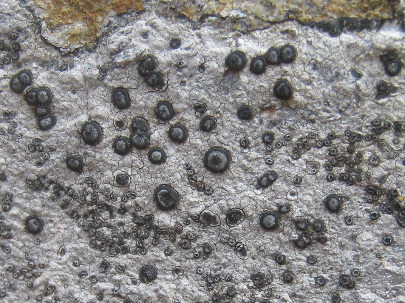 Porpidia cinereoatra (Ach.) Hertel & Knoph Image location: Mata da Margaraça, Arganil, Portugal Used references: British Flora: Smith et al., The Lichens of Great Britain and Ireland, The British Lichen Society, 2009; Irish lichens. For more information about this, see the observation page at Mushroom Observer.